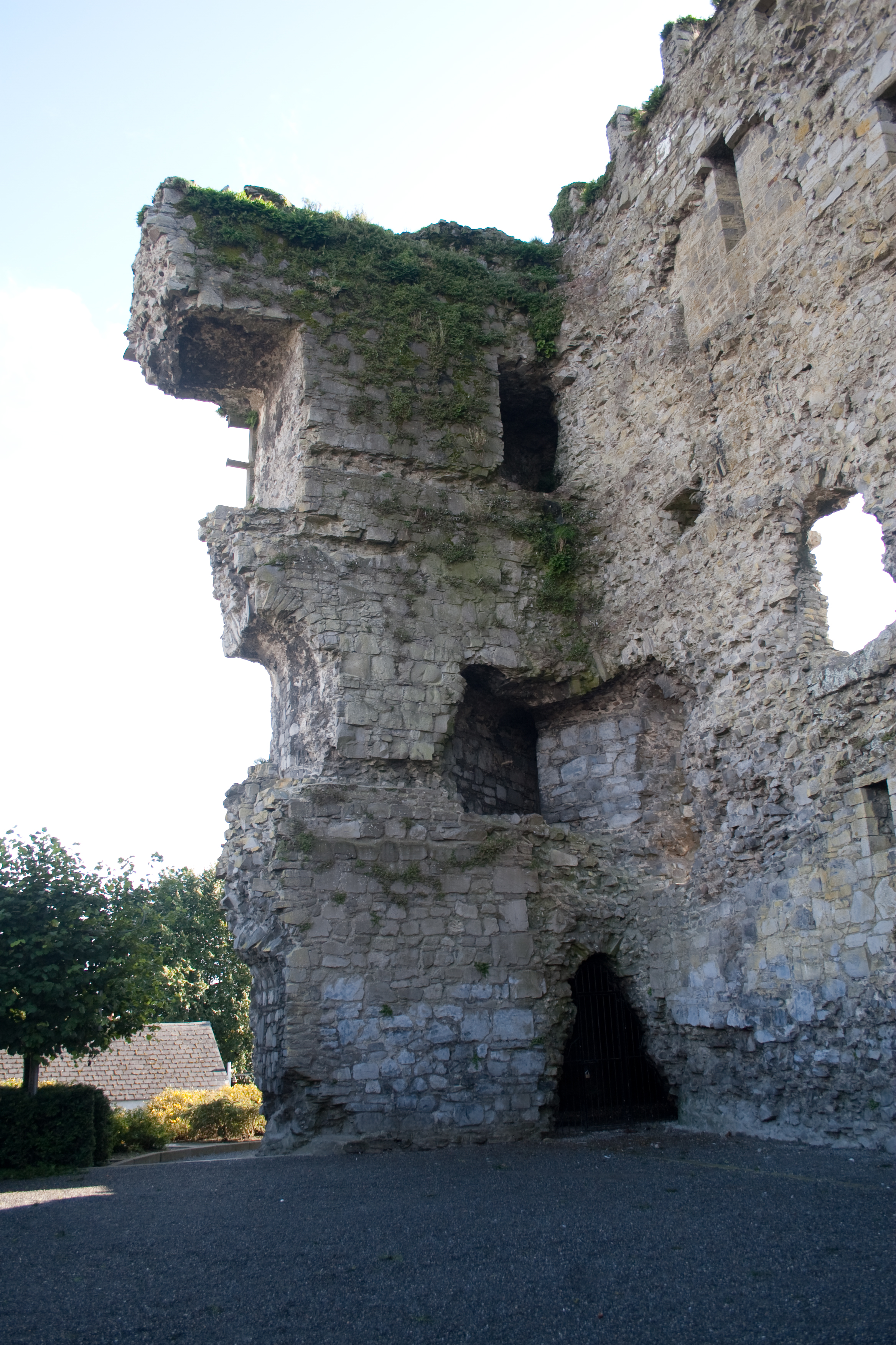 Carlow, County Carlow, Ireland South-west tower of Carlow Castle as seen from inside.